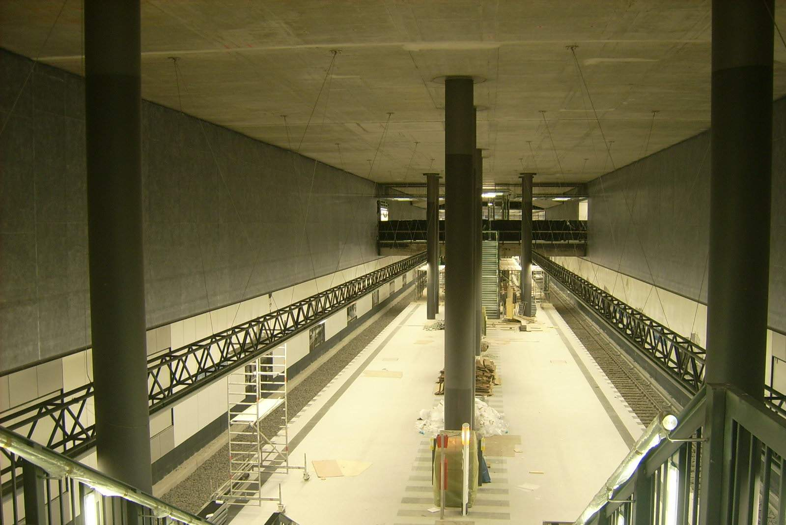 The not yet opened Berlin U-Bahnstation Hauptbahnhof (German for main station), line U55